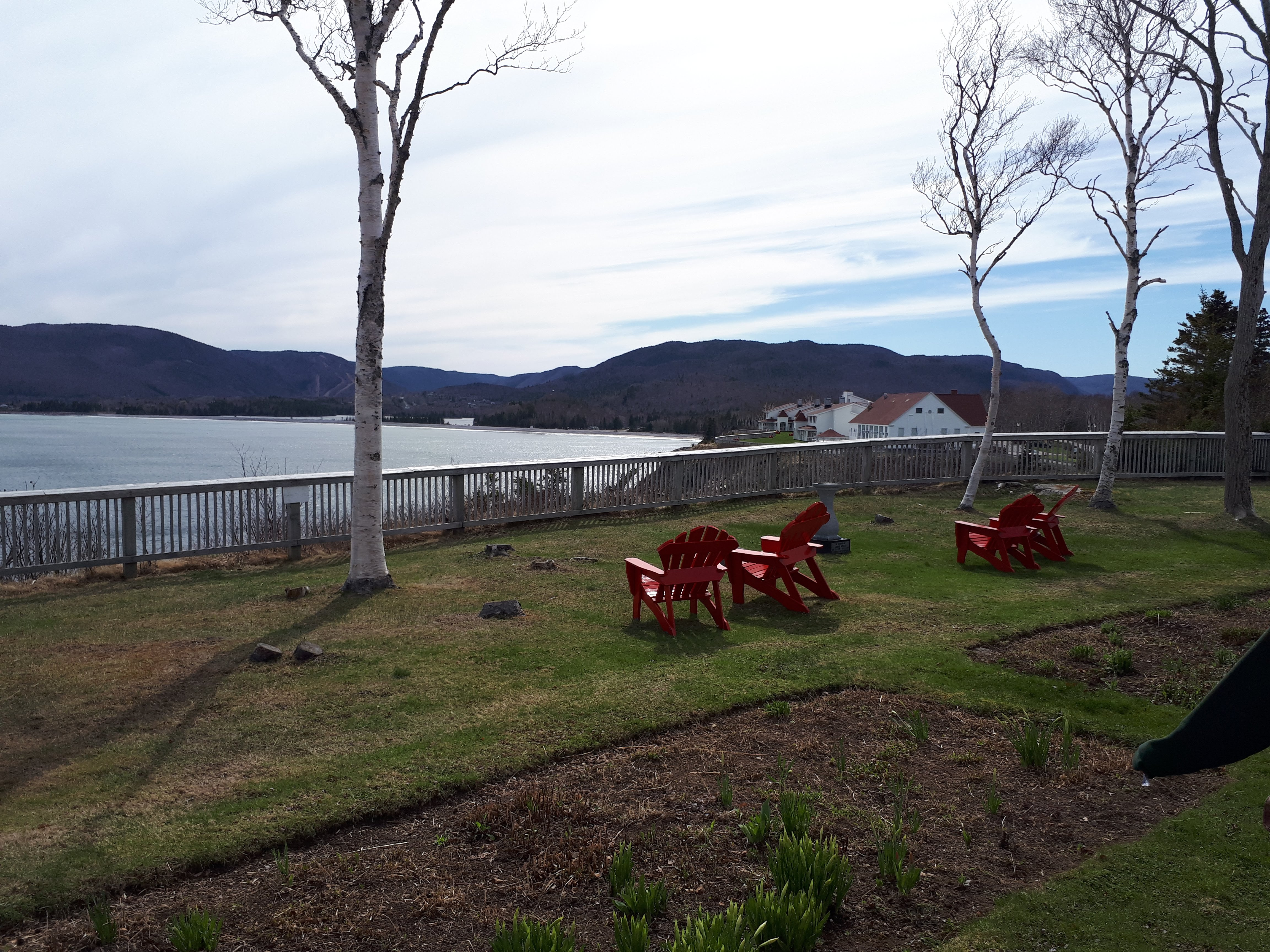 Scenery surrounding the resort